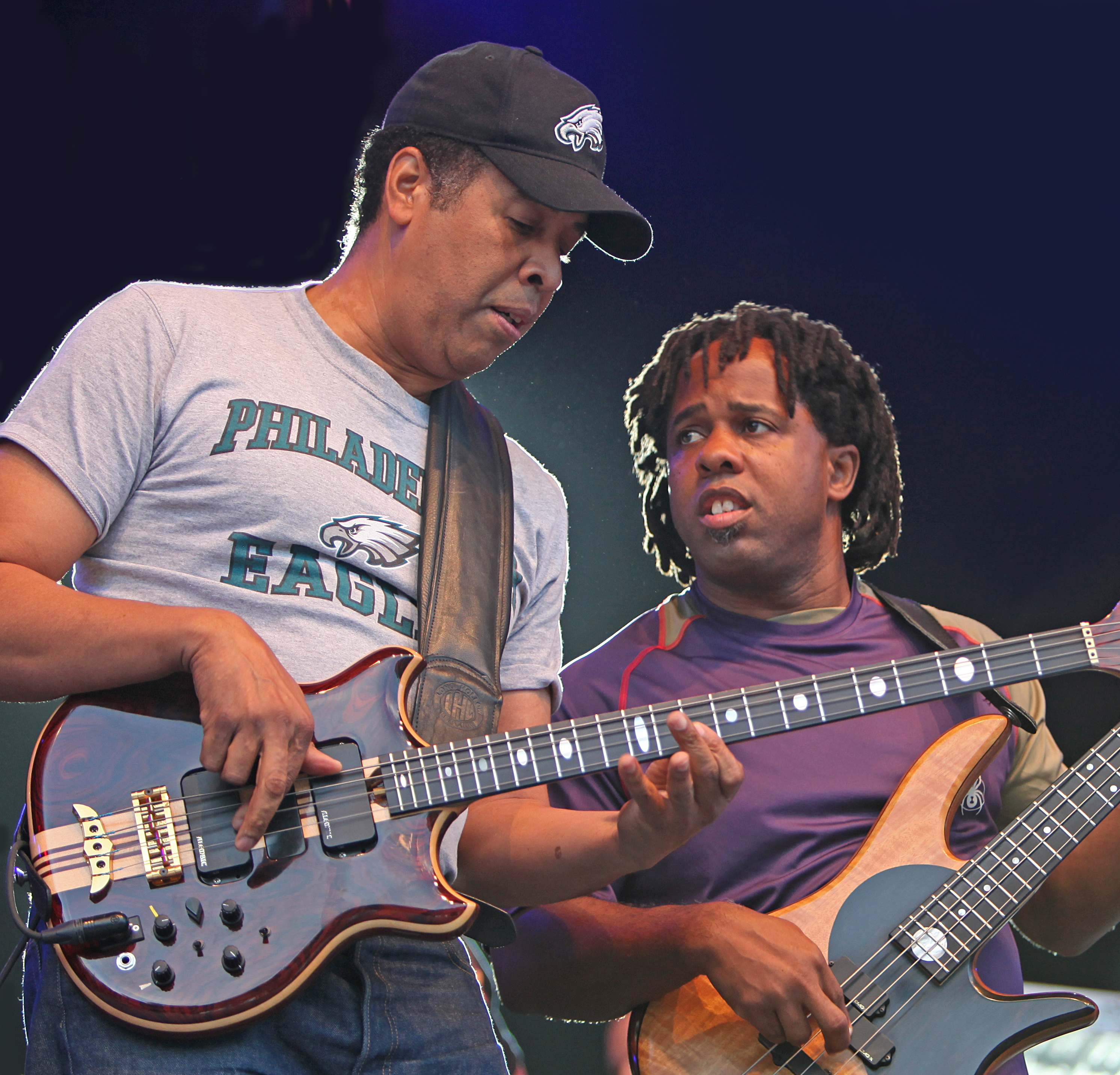 Stanley Clarke and Victor Wooten in The SMV Thunder Tour at Stockholm Jazz Fest 2009 Stanley Clarke (left): Alembic bass Victor Wooten (right): Fodera Yin-Yang 4 String